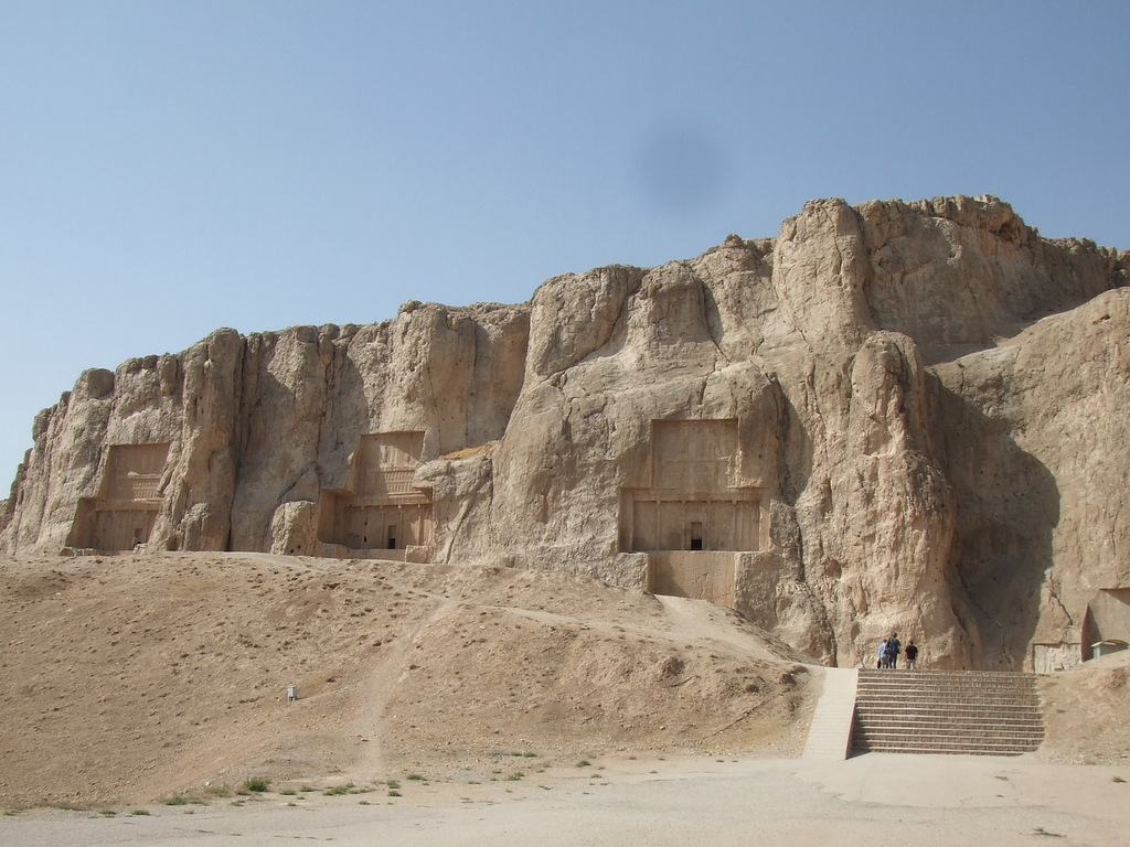 Naqsh-e Rustam